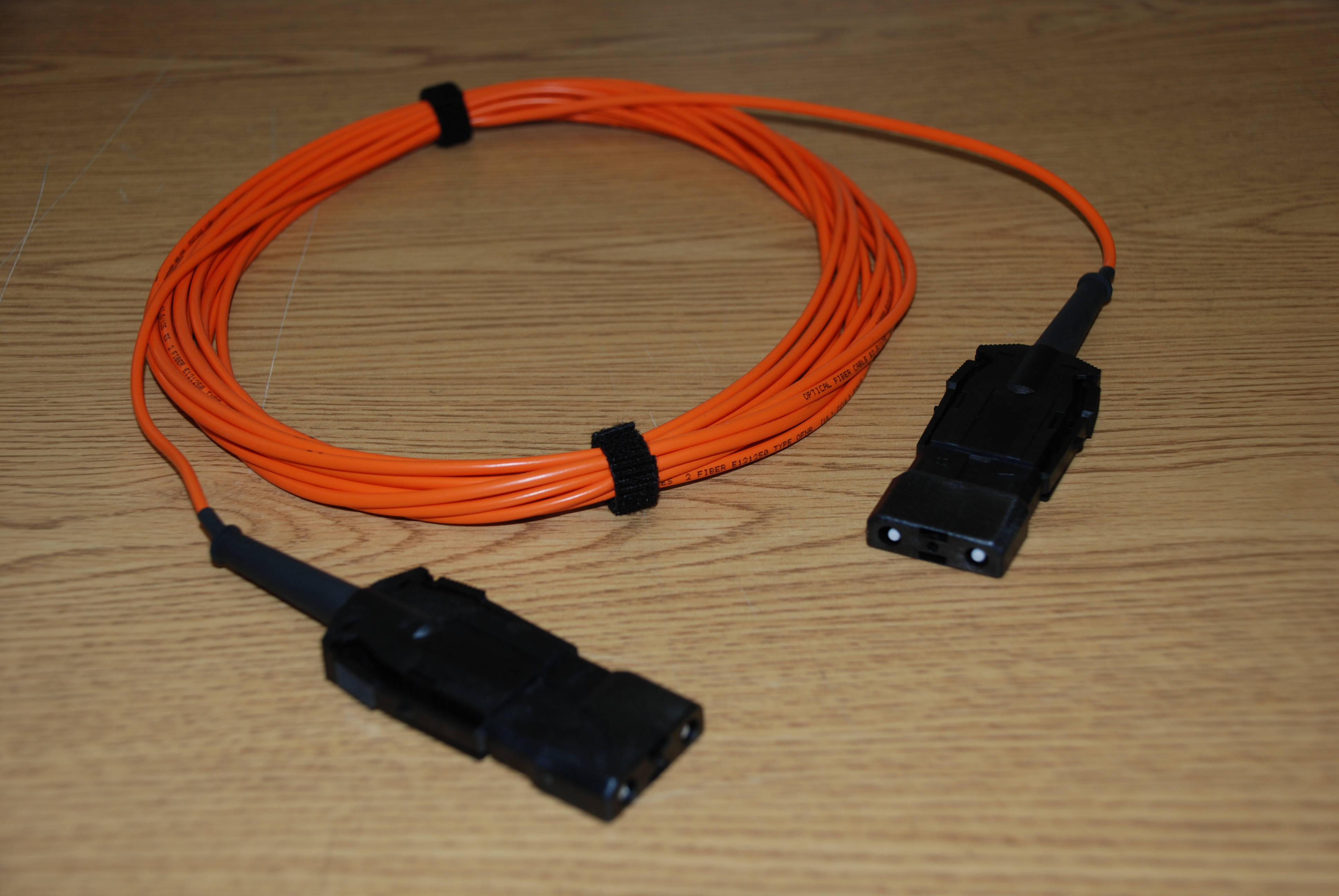 Photograph of a typical ESCON cable.